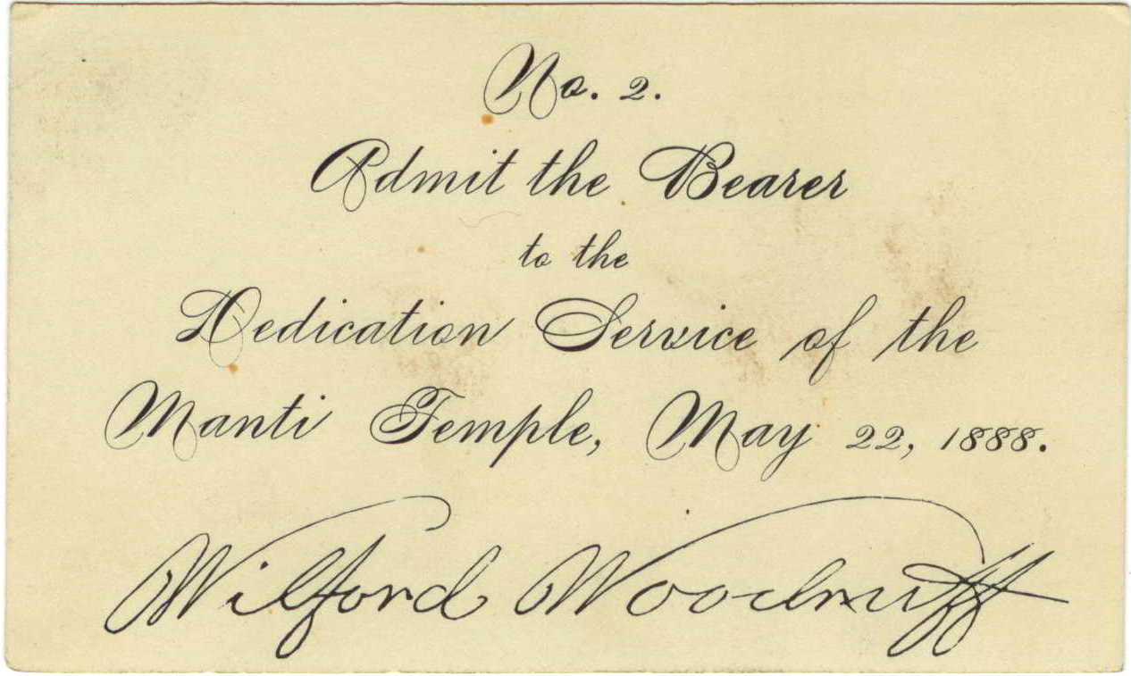 Manti Temple dedication admission signed by President Wilford Woodruff. Given to My GGGrandfather Peter M Oldroyd, bishop of Fountain Green, Utah. Church of Jesus Christ of Latter-Day Saints, The Mormons. Dedication May 22, 1888.